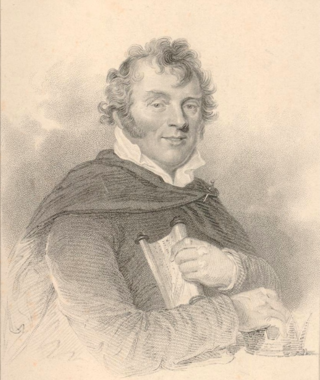 Roger OConnor portrait from chronicle